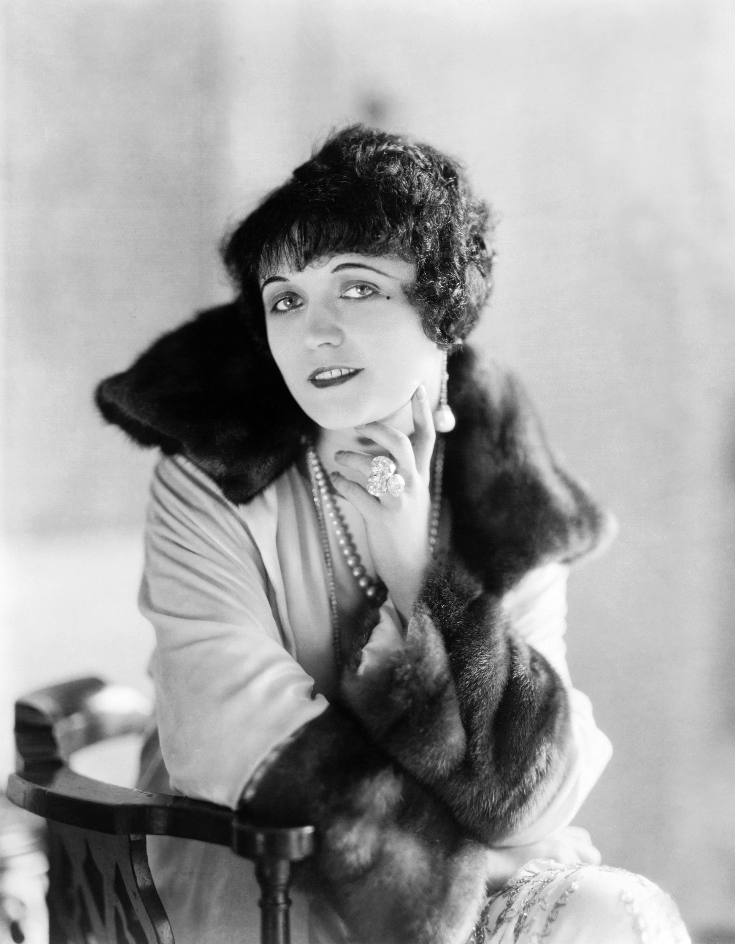 Polish-born Hollywood actress Pola Negri, three-quarter length portrait, facing left. Photograph by Abbé, Paris, 1921. From the U.S. Library of Congress. More Hollywood actresses | More black & white portraits [PDUS] This picture is in the public domain in the United States.